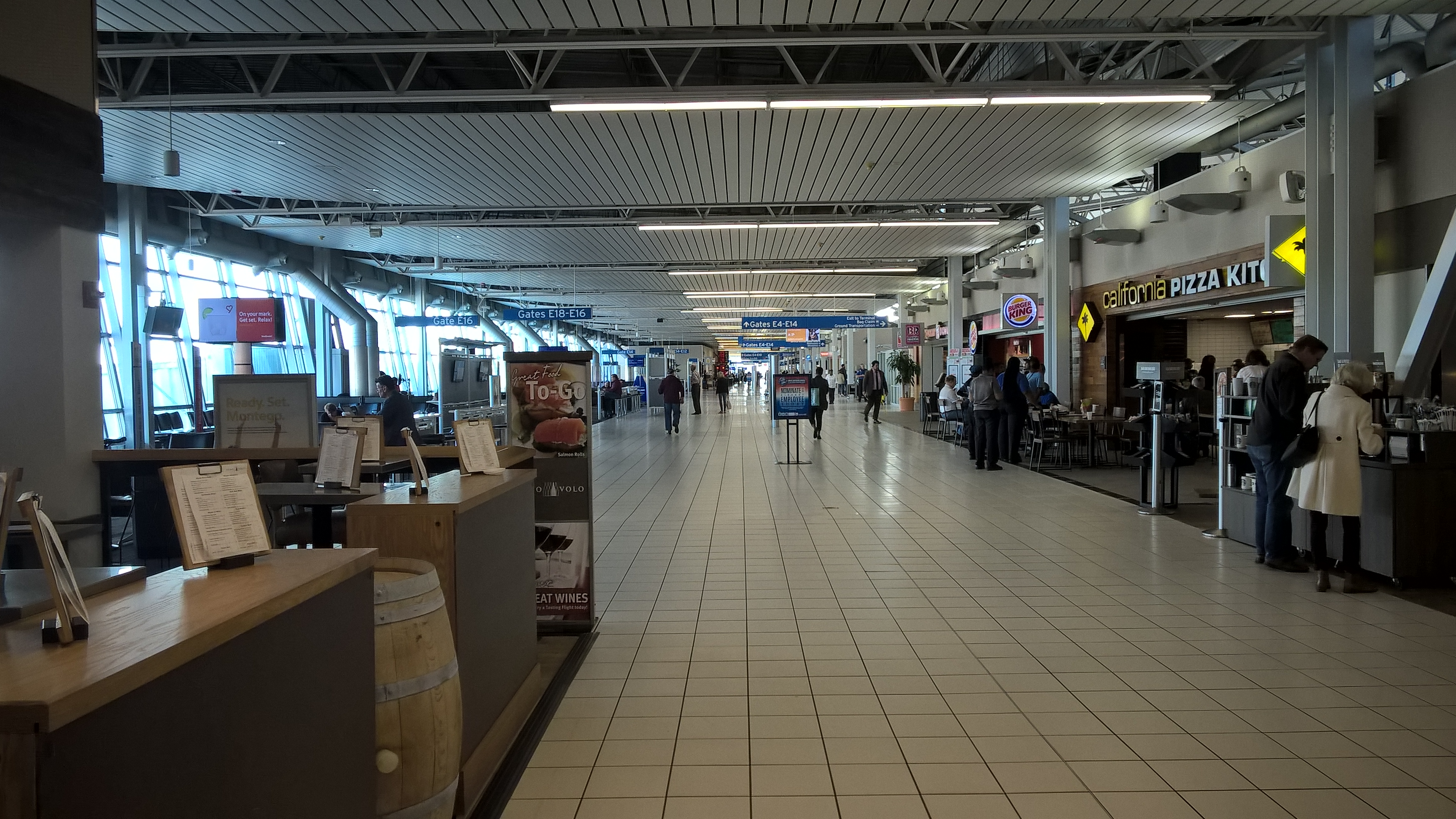 Overview of E Concourse at St Louis Lambert International Airport T2